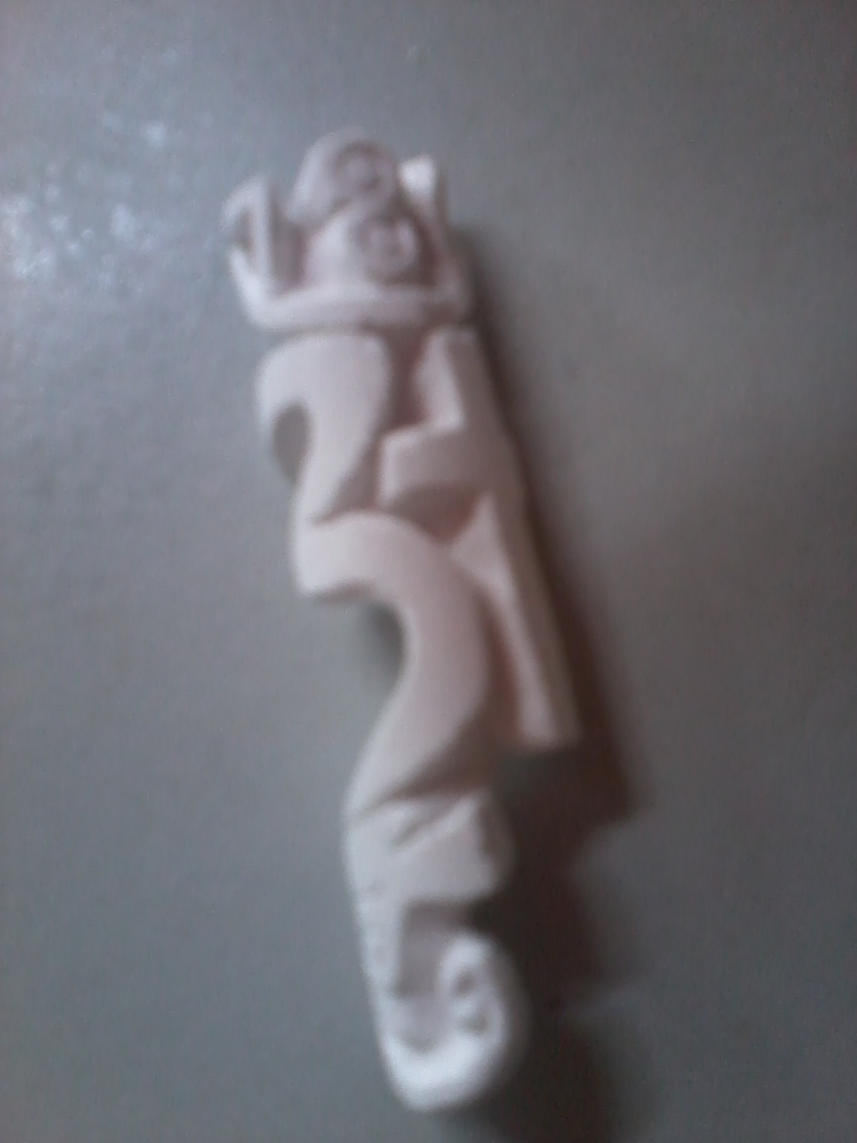 God is One by Vanitha Sri